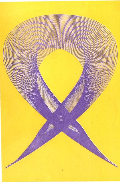 A thought form from Thought-Forms, by Annie Besant & C.W. Leadbeater.